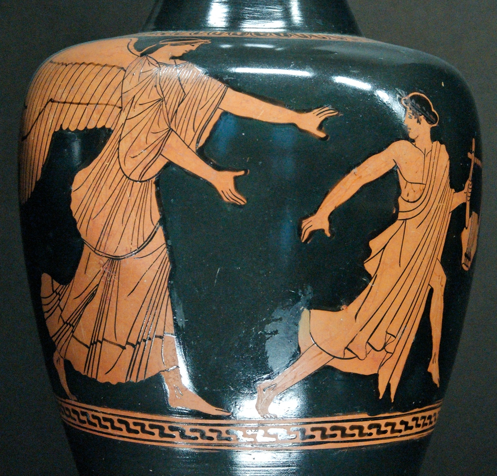 Eos (Dawn) pursuing Tithonus, detail from an Attic red-figure oinochoe.